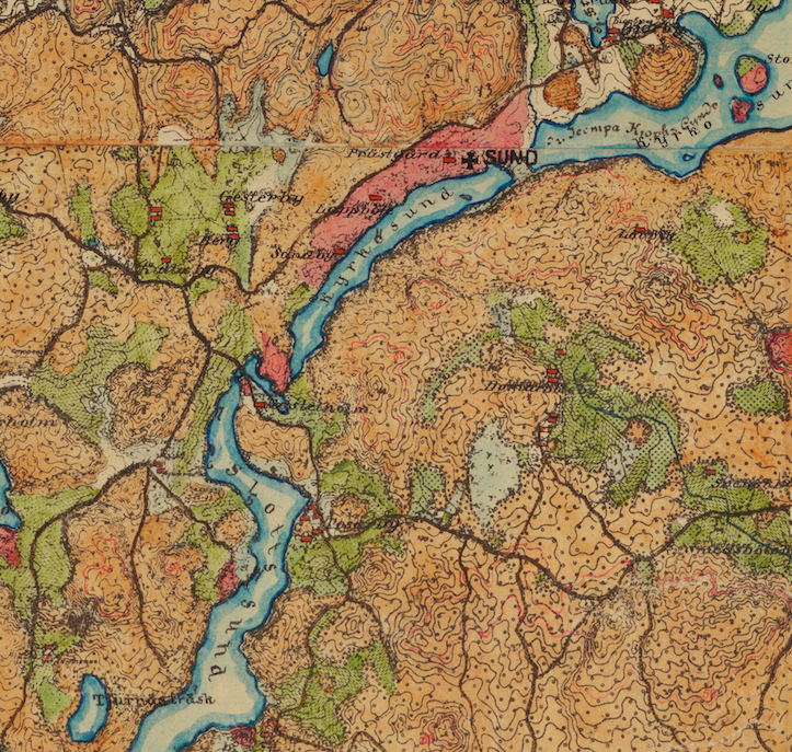 The Senate Atlas is a series of maps of Southern Finland drawn by the Russian Army topographic troops in the end of the 19th and the beginning of the 20th centuries in scale 1:21 000. The Senate Atlas consists of 2 individual series with different colouring traditions, the Russian and the Finnish.